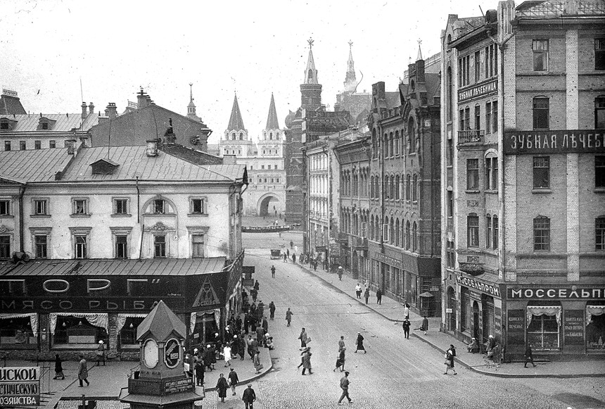 Loskutnaya Hotel, Moscow, Russia